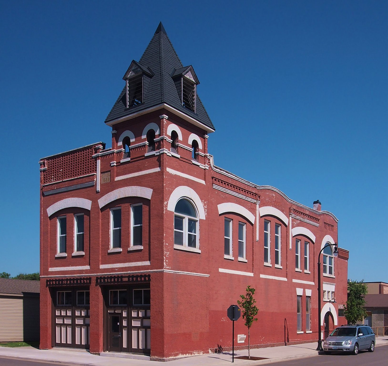 Delano Village Hall, Delano, Minnesota, USA. Viewed from the southeast.